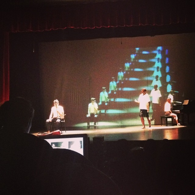 Video feedback at last night's NYU IMPACT performance